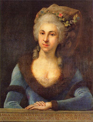 Marianna Martines, Pupil of P. Metastasio; born in Vienna, 4th day of May 1744, Member Academia Filarmonica